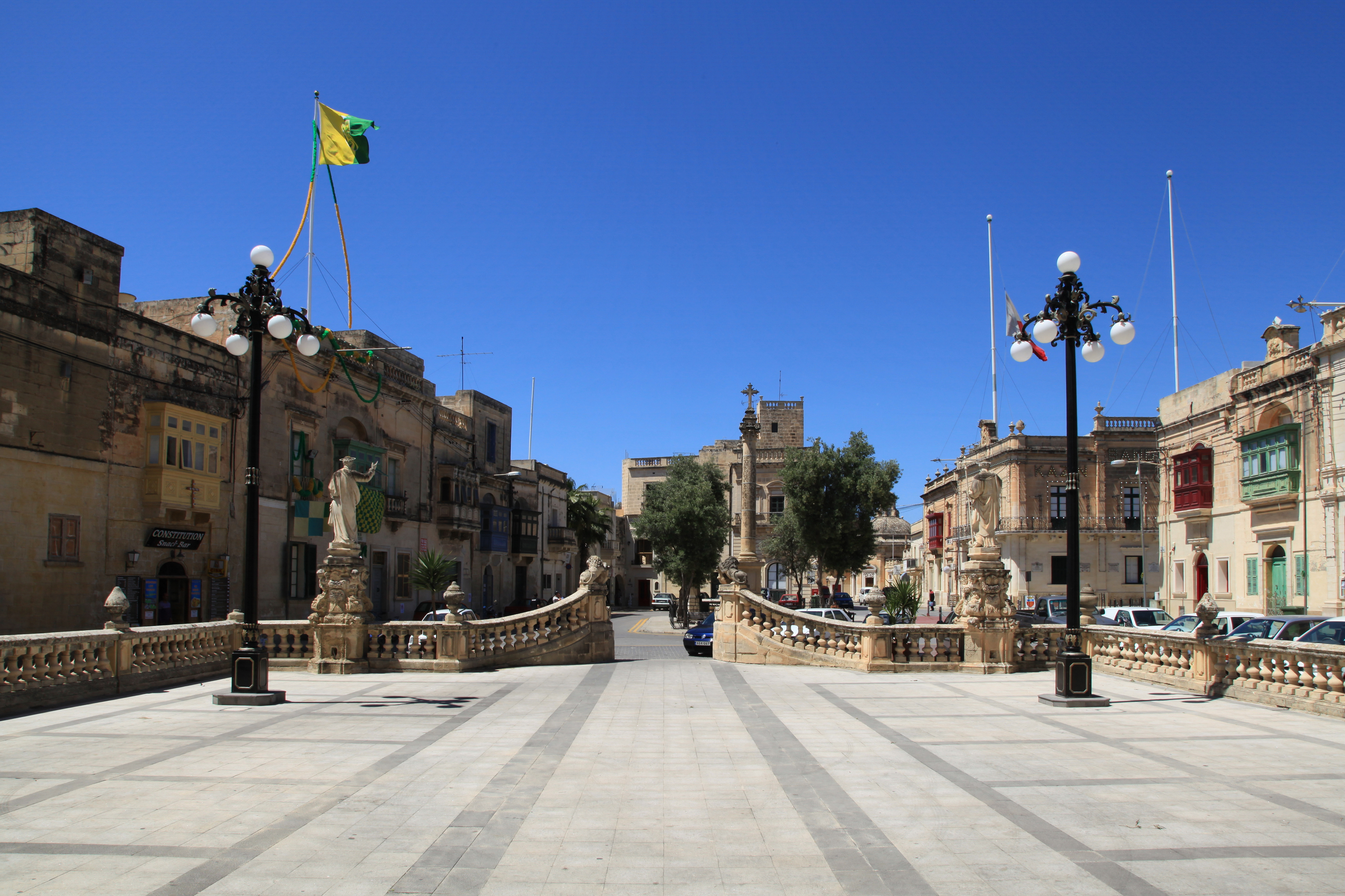 Misraħ San Filep in Żebbuġ, Malta